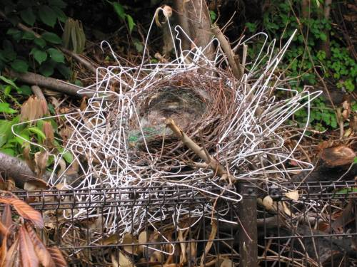 I took this photo of a crows nest fallen down from a tree in a suburb of Tokyo (Higashi-Yukigaya, I lived there for 3 years)